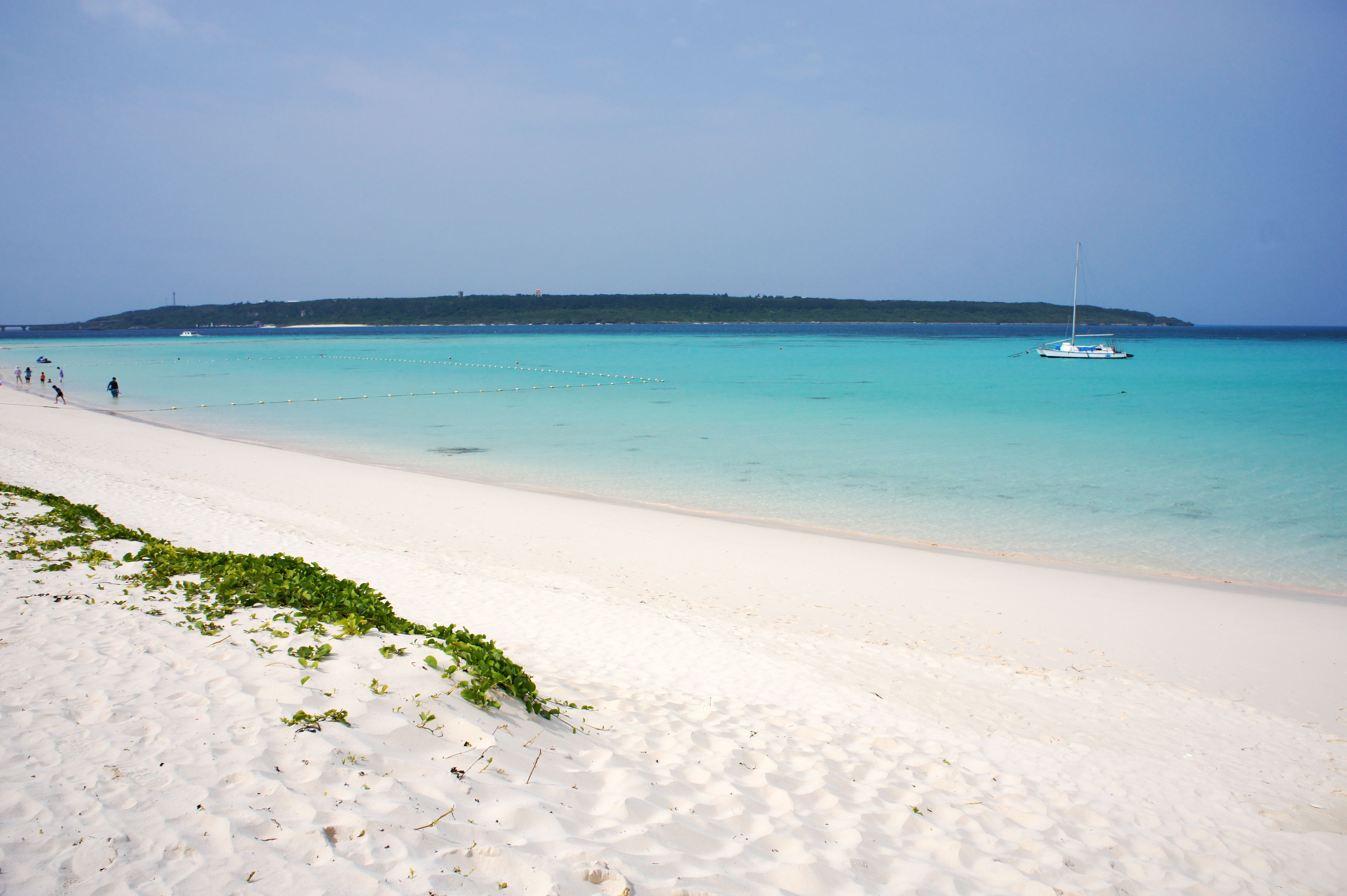 at Yonahamaehama Beach in Miyakojima, Okinawa Prefecture, Japan.